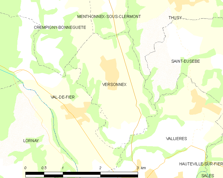 Map of French municipality Versonnex